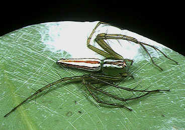 female Oxyopes macilentus with egg sac from Okinawa.